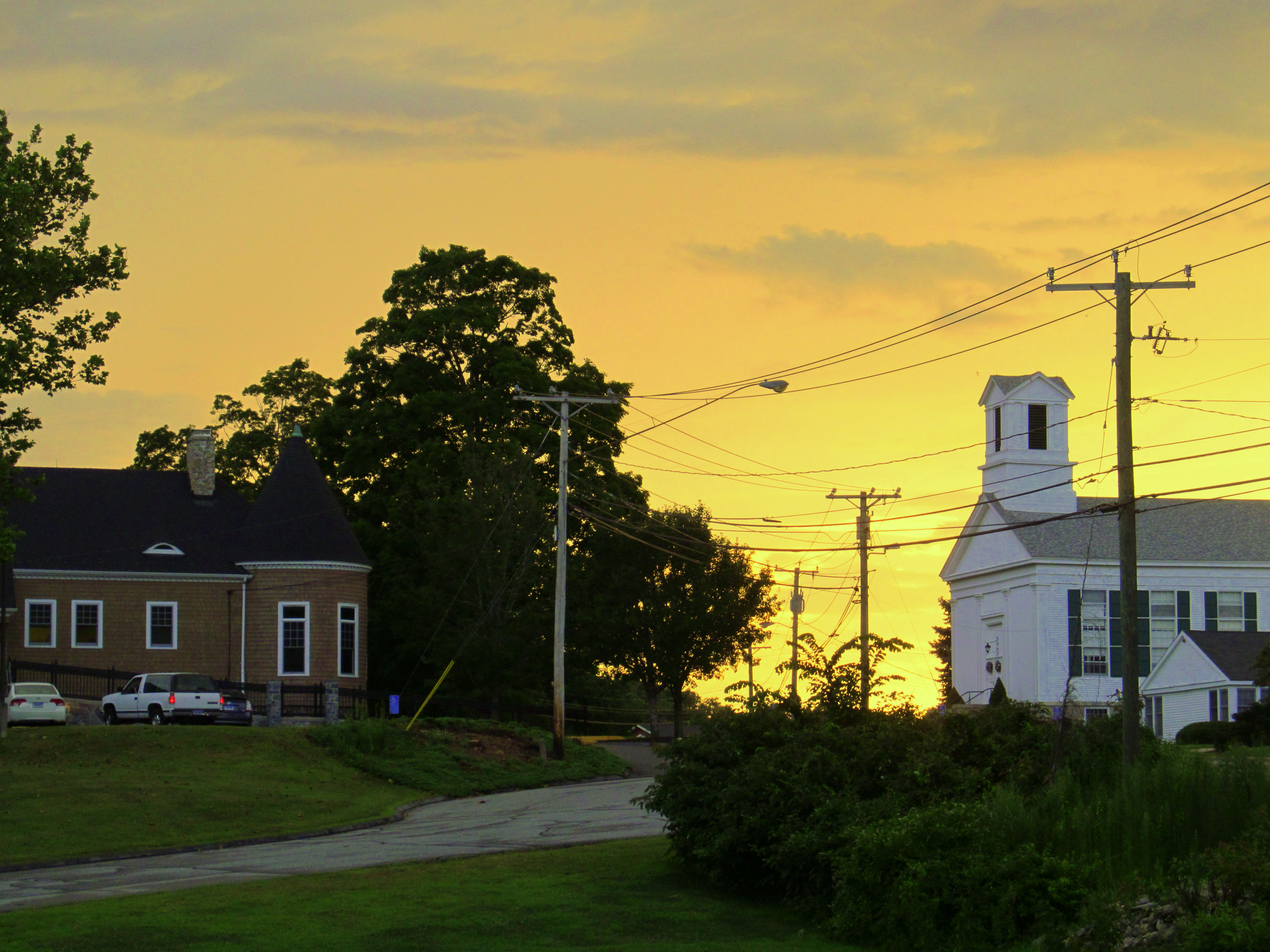 Sunset over Ledyard Center, Connecticut. The Bill Library is at left, and Ledyard Congregation Church at right.